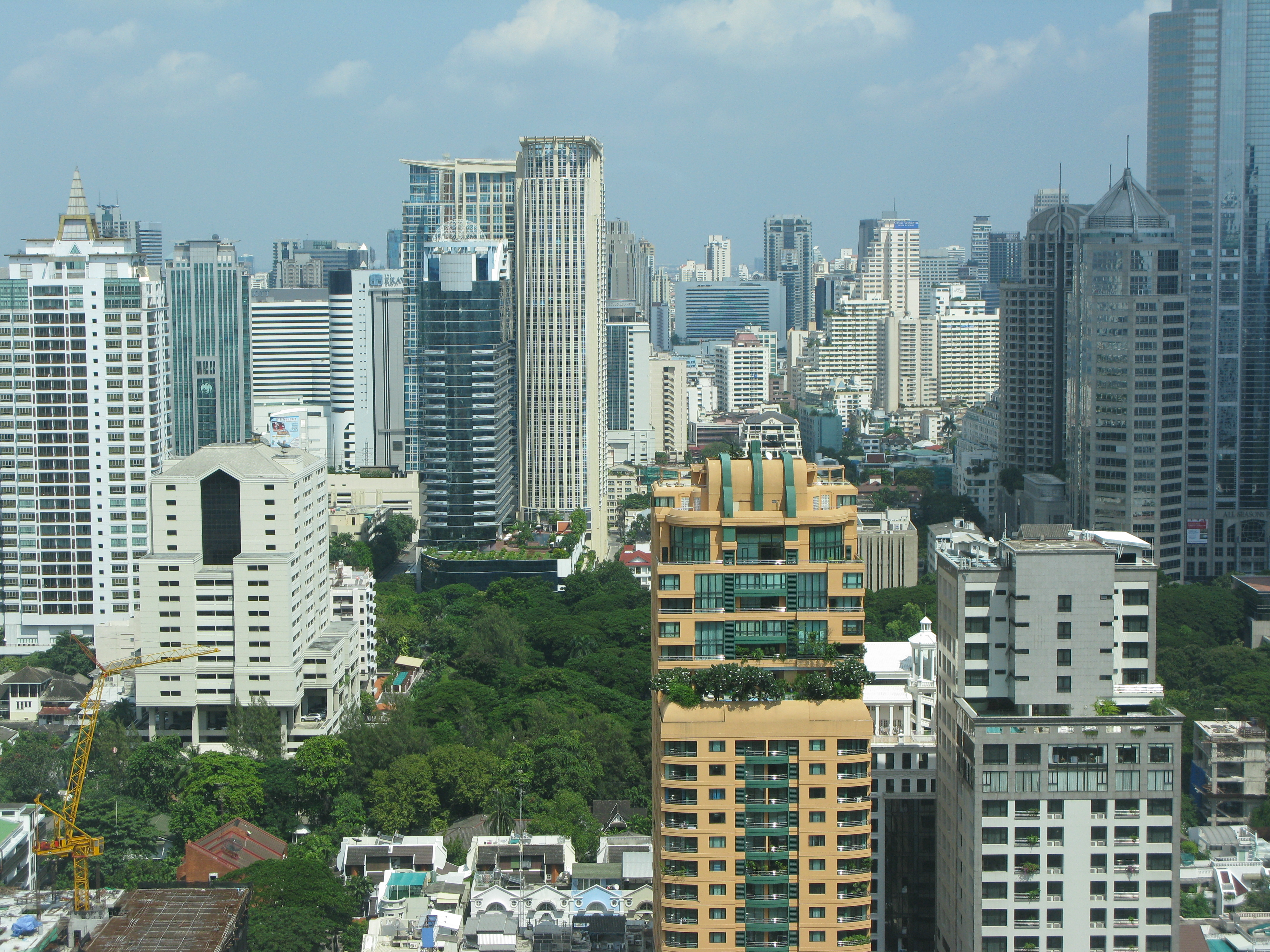 Central district of Bangkok